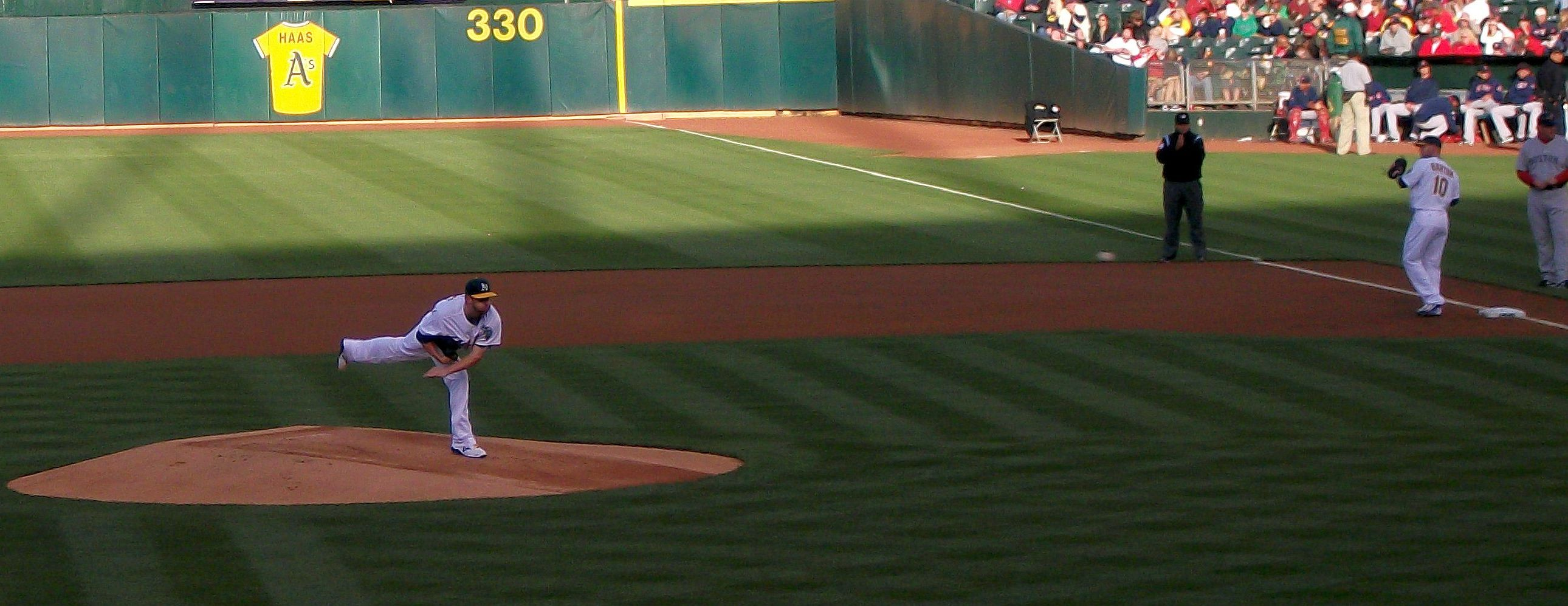 Dallas Braden warming up for game against the Boston Red Sox.